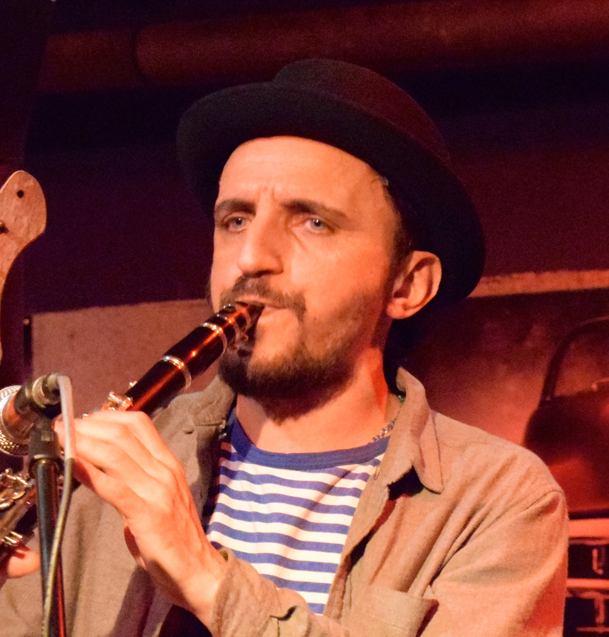 Miroslav Atanasov (Miro Morski)